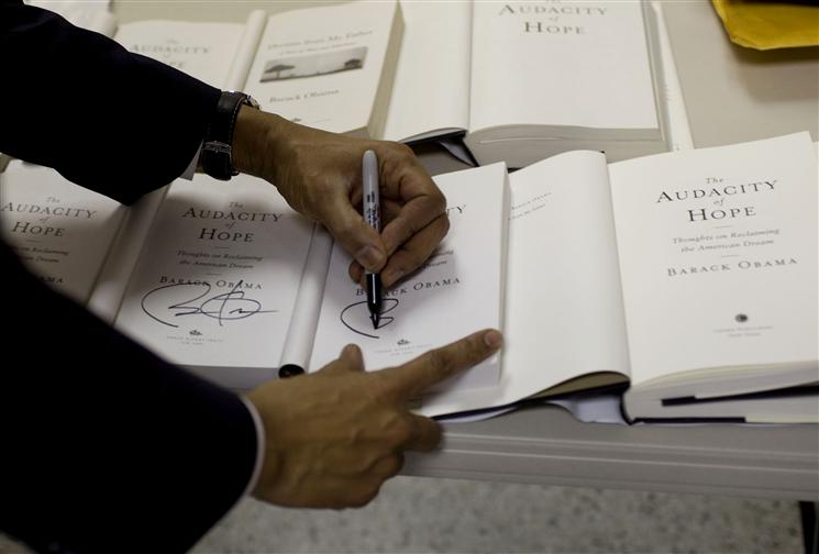 President Barack Obama signs copies of his book The Audacity of Hope at a town hall meeting in Elkhart, Indiana on economic recovery.